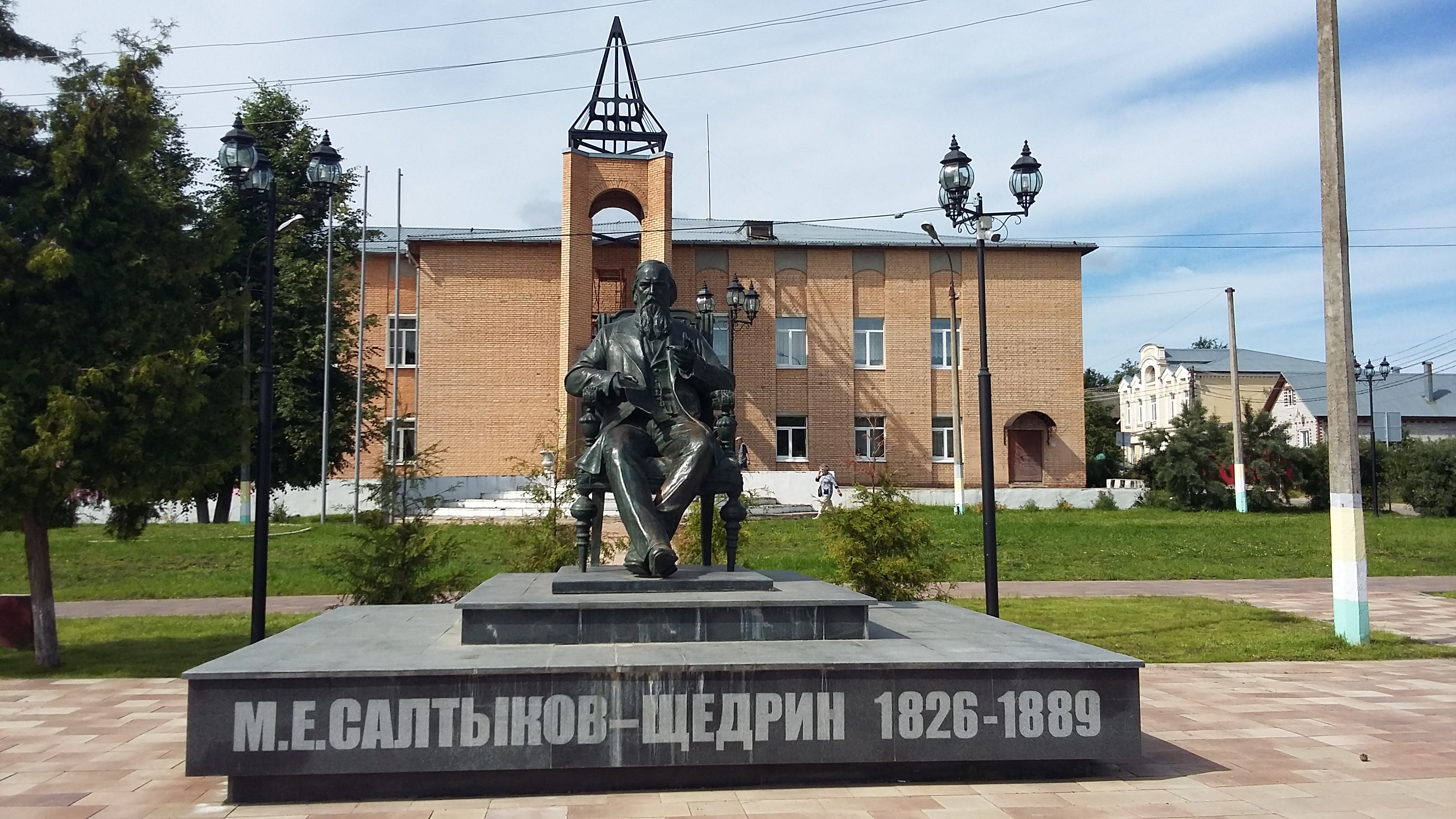 Monument to Mikhail Saltykov-Schedrin in Taldom, Moscow region, Russia